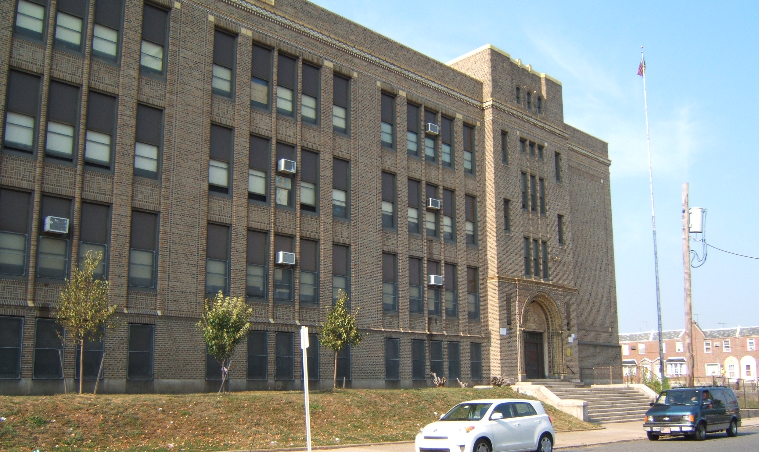 Edwin Forrest School is a public elementary school in the Tacony neighborhood of Northeast Philadelphia at 7300 Cottage Street, Philadelphia, PA 19136, constructed in the Art Deco school of architecture.